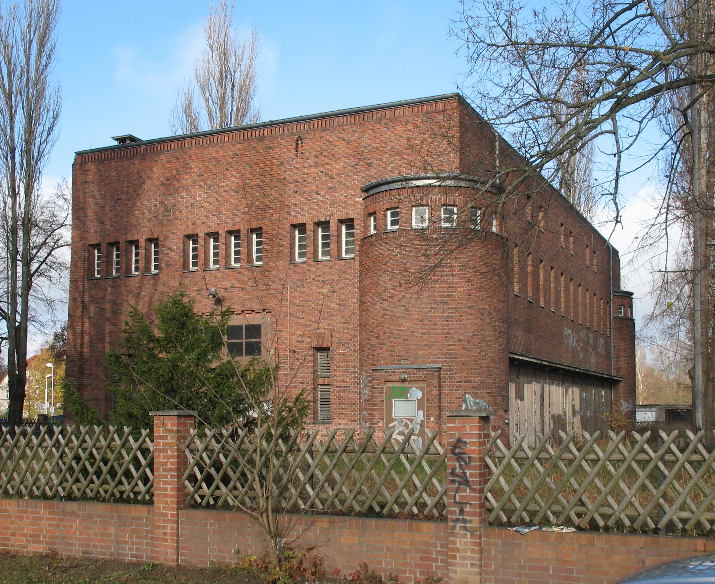 Former rectifier factory in Hennigsdorf in Brandenburg, Germany